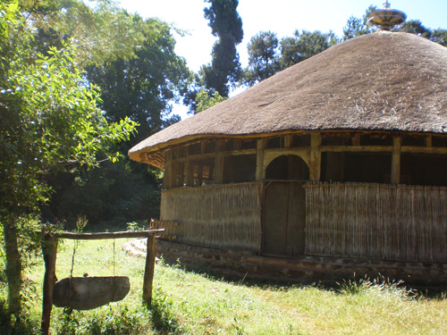 Monastery of Zeghie Azwa Mariam on Lake Tana, Bahar Dar, Ethiopia